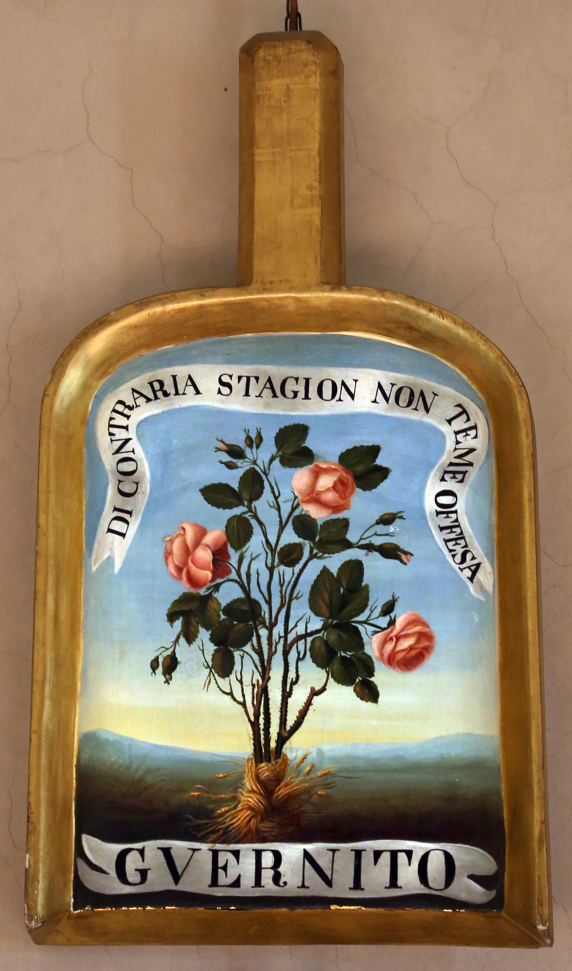 Shovels of Accademici della Crusca